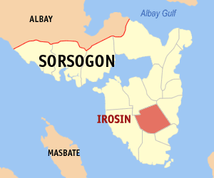 Map of Sorsogon showing the location of Irosin